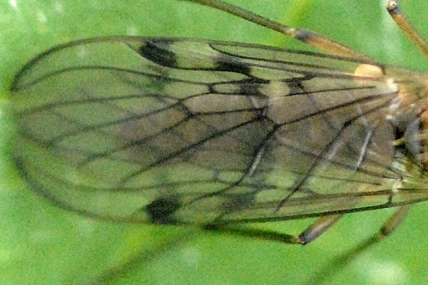 Sylvicola fenestralis from Commanster, Belgian High Ardennes .